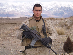 1st Lt. Stephen J. Boada, fire direction officer, 1st Battalion, 12th Marine Regiment, poses for a photograph somewhere near the Afghanistan/Pakistan border in early 2005. Boada was awarded the Silver Star for his actions when his patrol came under attack on May 8, 2005.